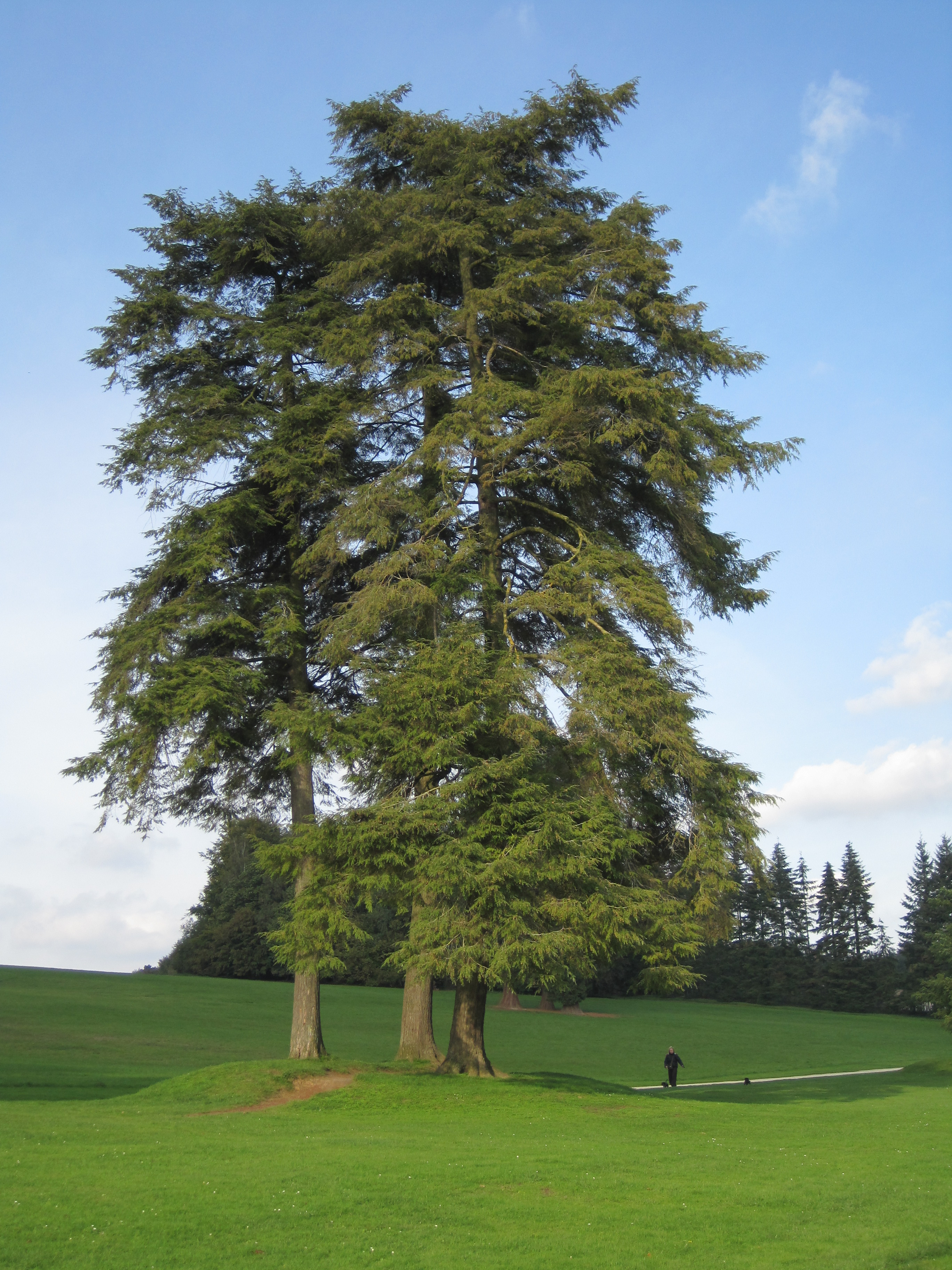 The remarkables trees of the Domaine Solvay in La Hulpe (Belgium).